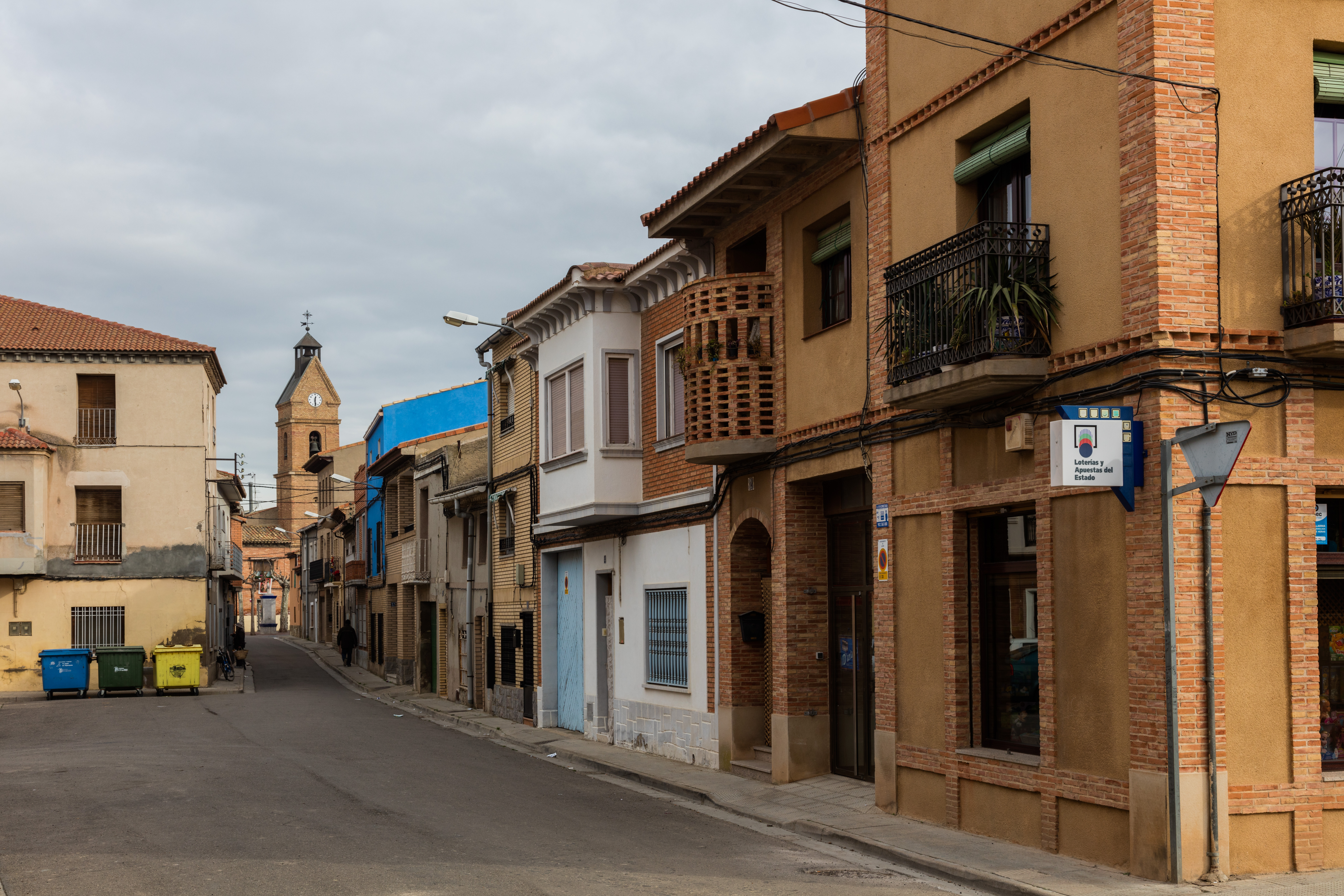 Luceni, Zaragoza, Spain